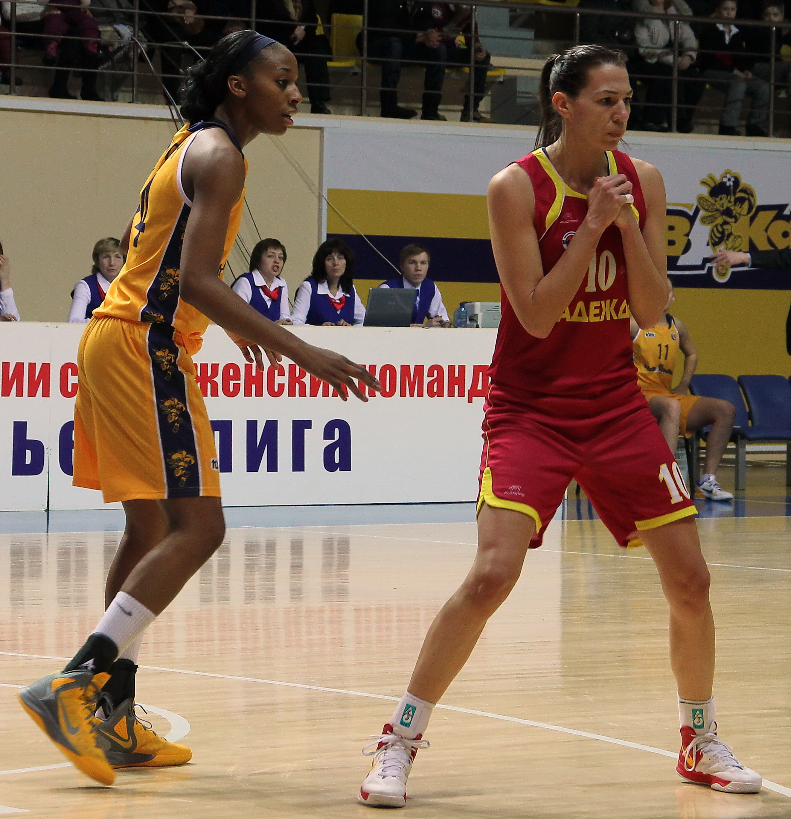 Russia, Vologda, Glory Johnson vs Iva Perovanović in game «Vologda-Chevakata» vs «Nadezhda» (Orenburg)